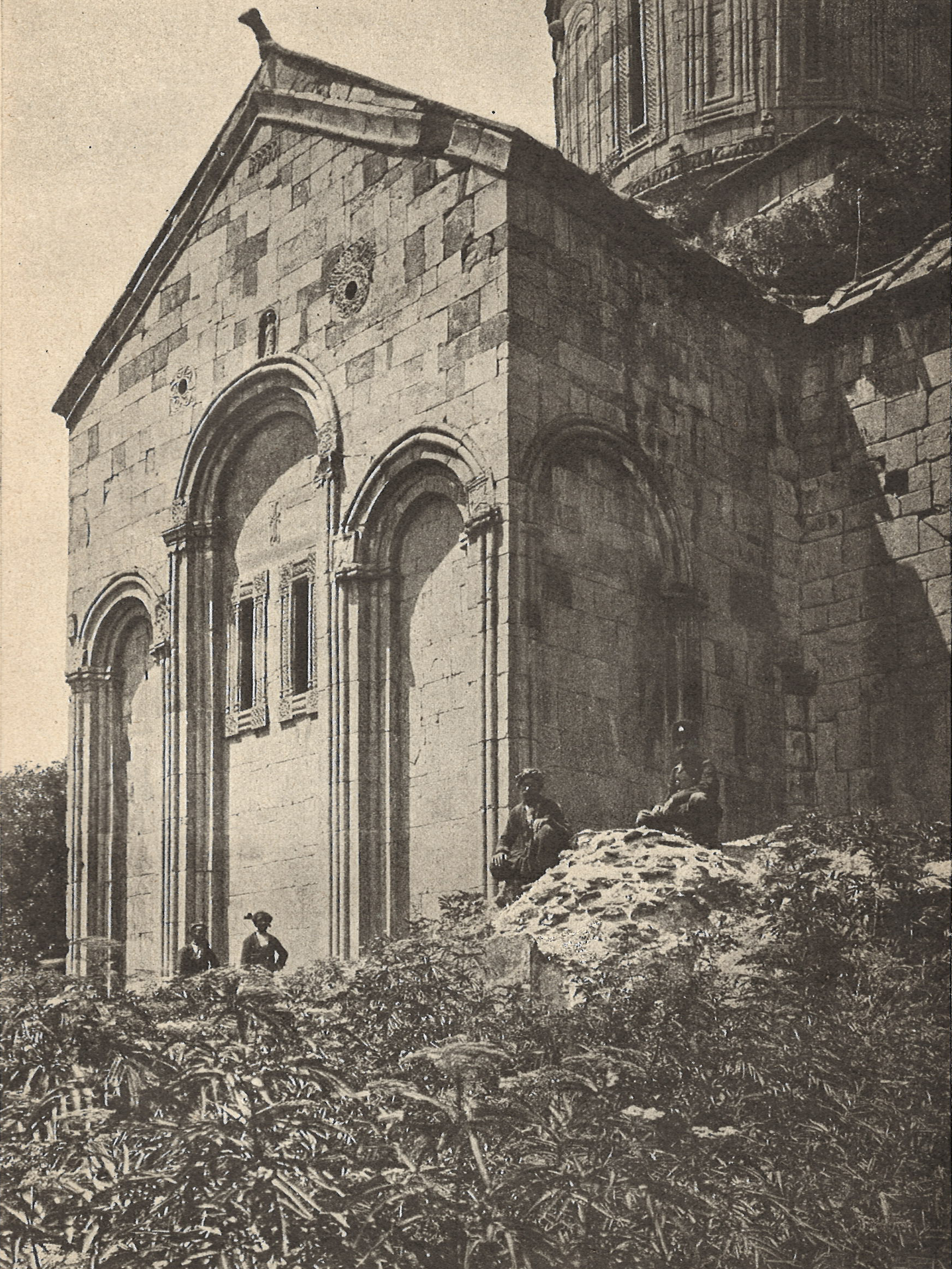 Tbeti church. From Nicholas Marr's dairy of his travels to Shavsheti and Klarjeti (1911).